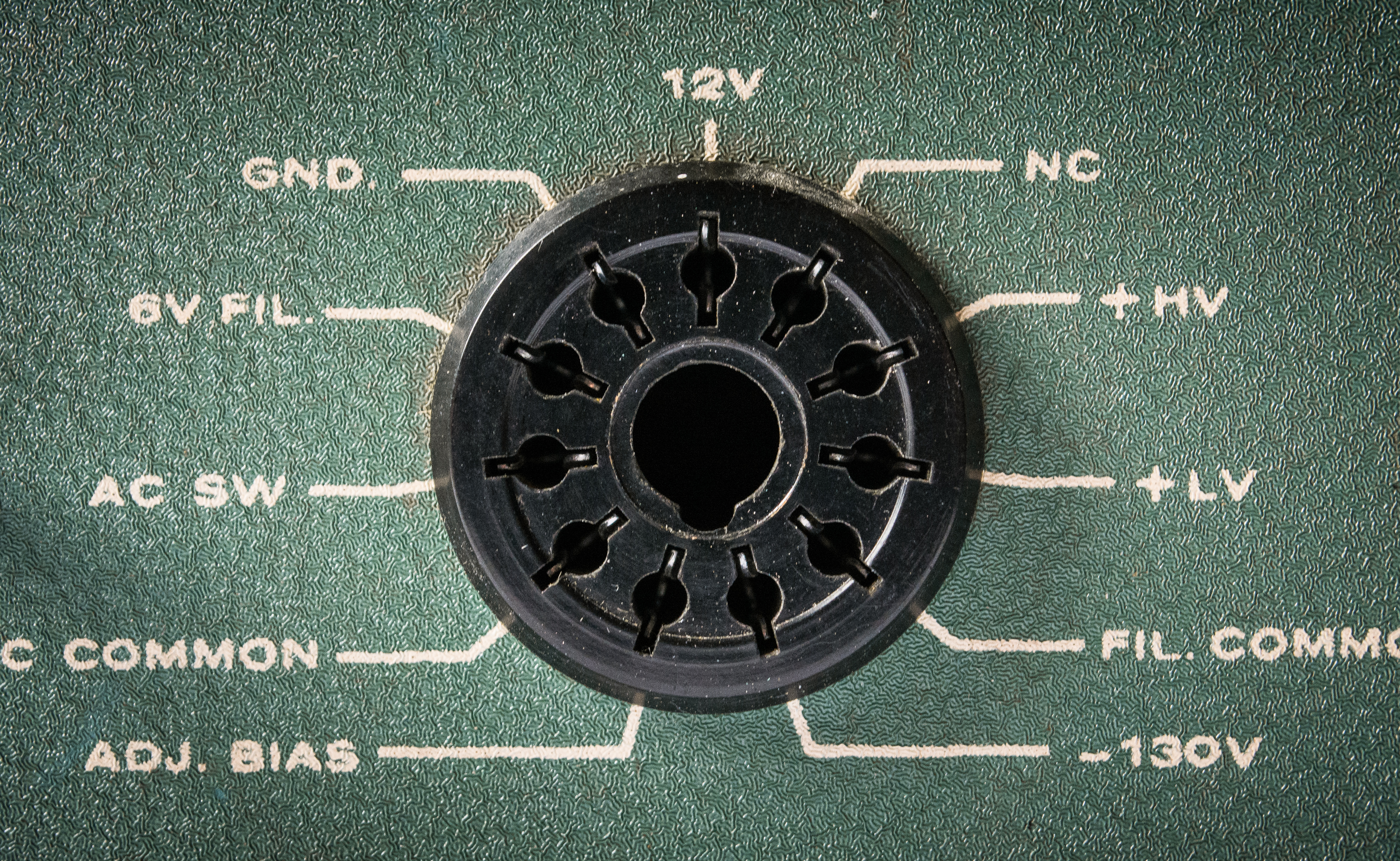 Heathkit 11-pin power supply connector for tube radio equipment.